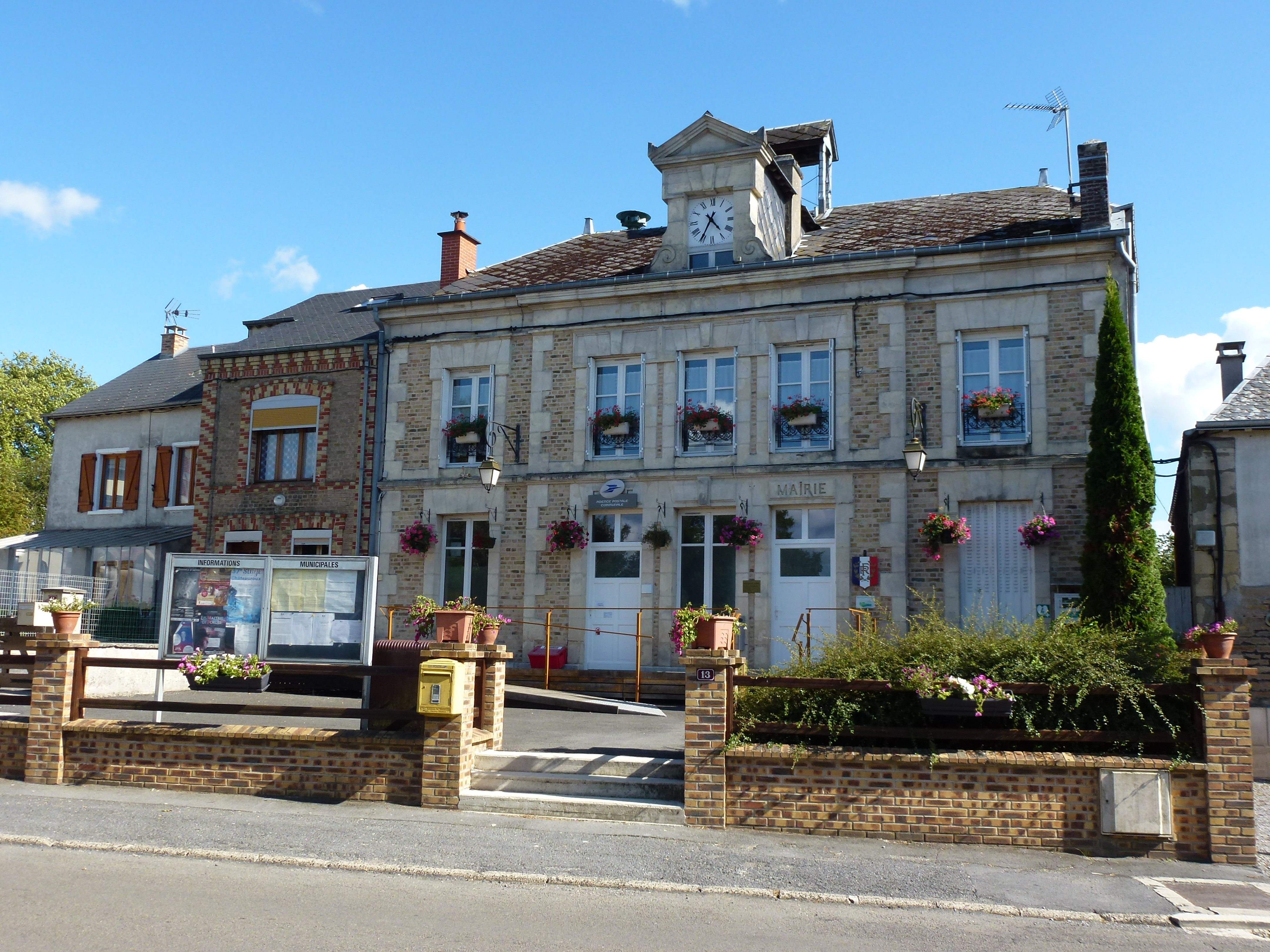 Launois-sur-Vence (Ardennes) mairie, bureau de poste